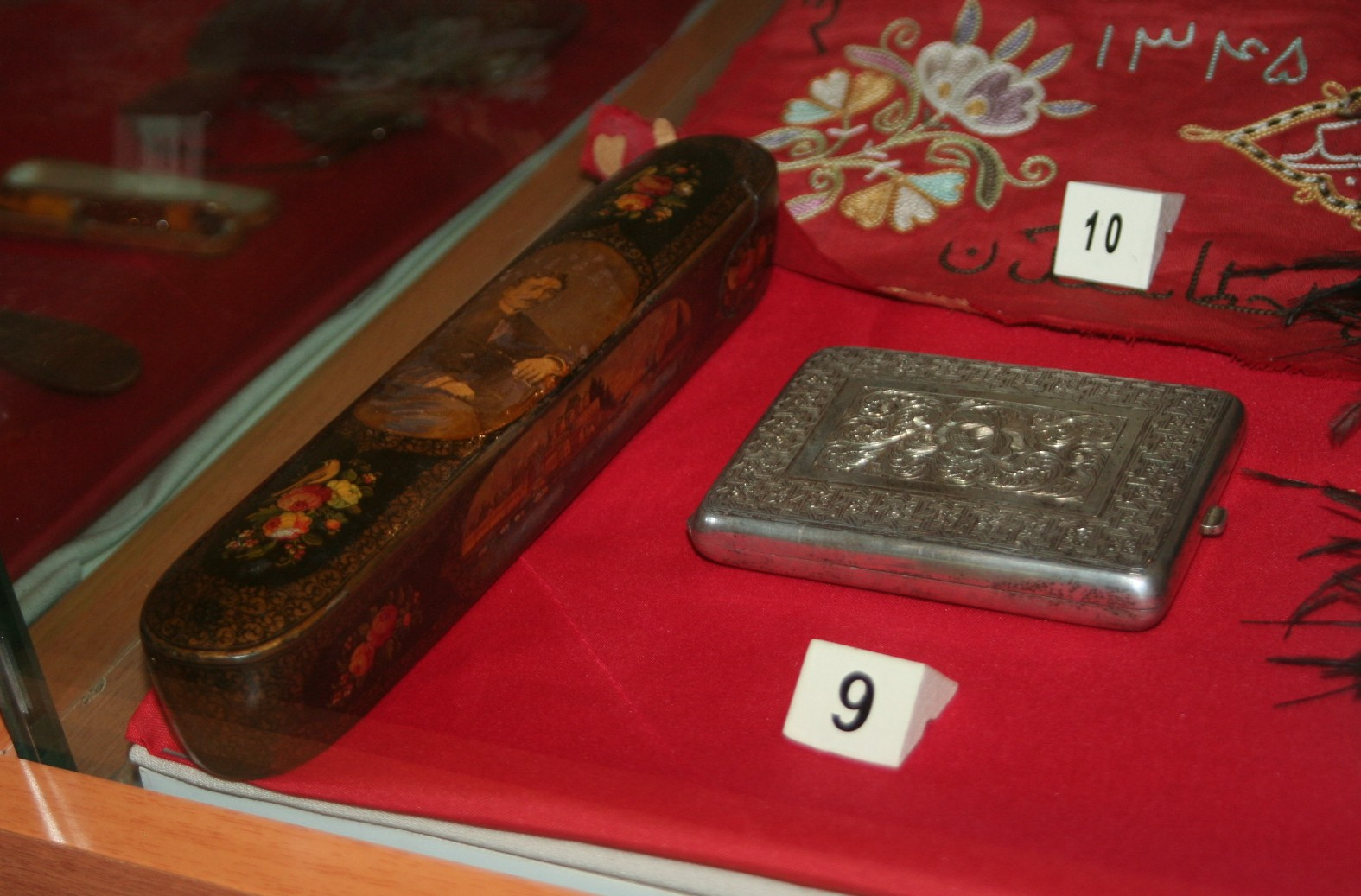 Cigarette case and pen case of actor Ismayil Hidayetzade